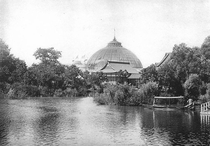 Taken during the Chicago World's Fair in 1893